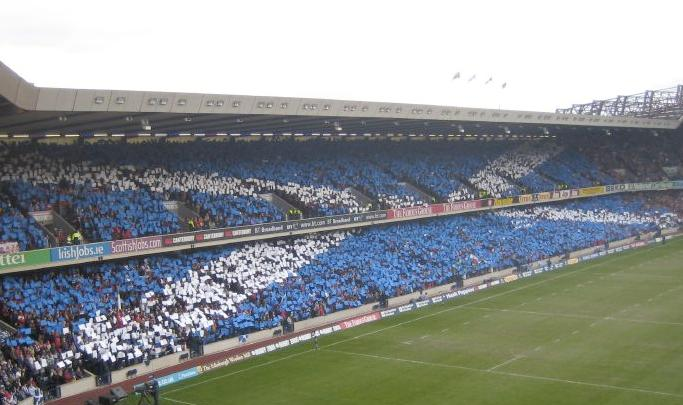 Scottish rugby match